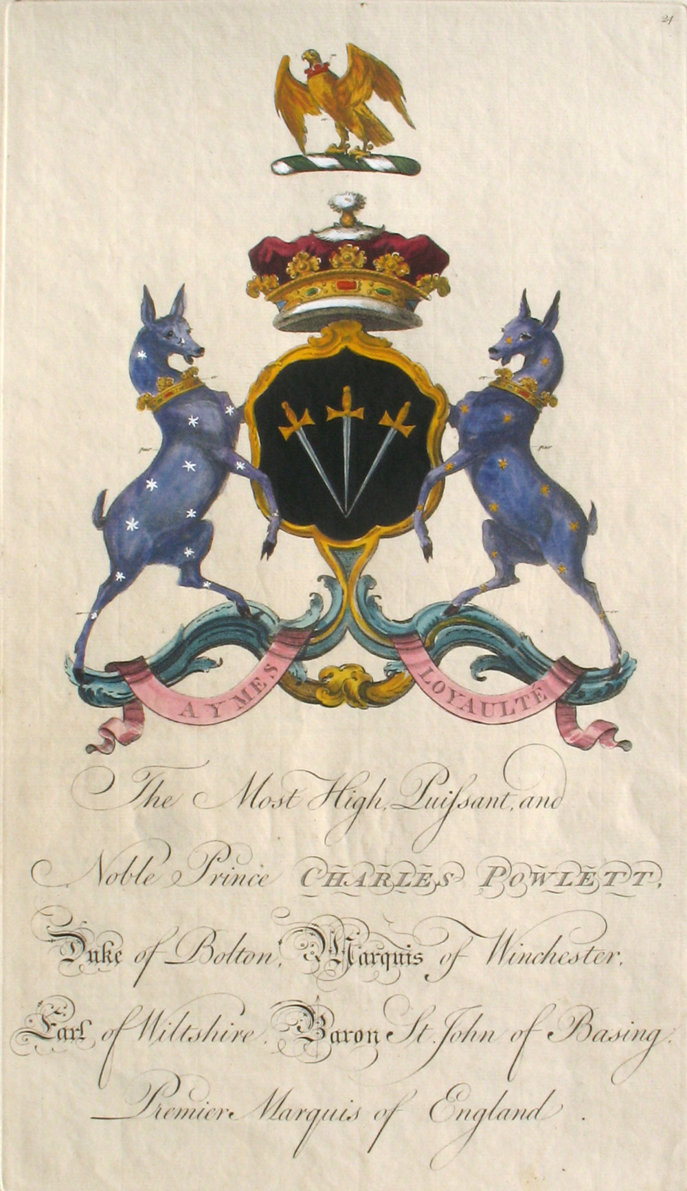 Coat of arms of The Most High, Puissant, and Noble Prince Charles Powlett, Duke of Bolton, Marquis of Winchester, Earl of Wiltshire, Baron St. John of Basing, Premier Marquis of England, Sir William Segar and Joseph Edmondson, 1764. Other information Baronagium Genealogicum, or the Pedigrees of the English Peers, Deduced from the Earliest Times: Originally compiled by Sir William Segar, and continued to the present time by Joseph Edmondson, 5 volumes, London. 1764, folio.